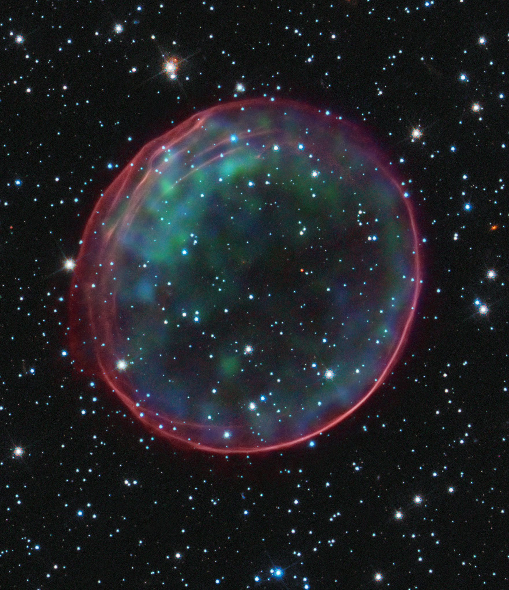 Optical and X-ray Composite Image of SNR 0509-67.5